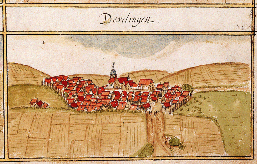 View of Oberderdingen from the forest register books created by Andreas Kieser